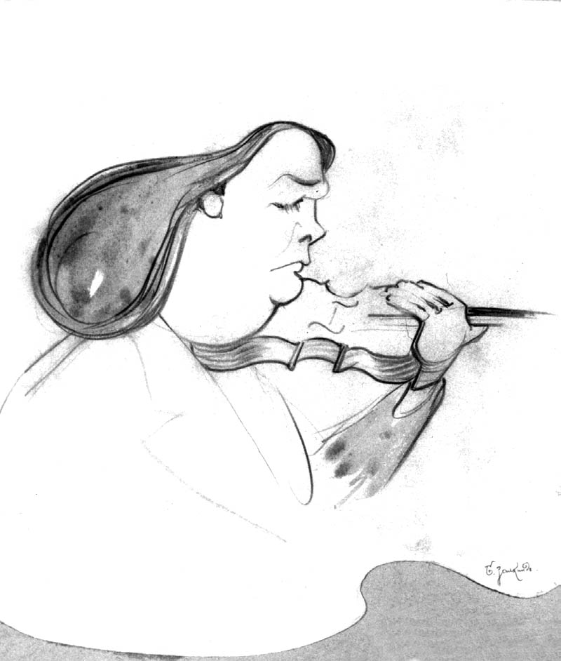 Ber Zalkind. “Cartoon of Violinist Eugene Isaya.” 1913